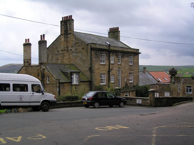 FylingHall school A mile or so South of Fylingthorpe.